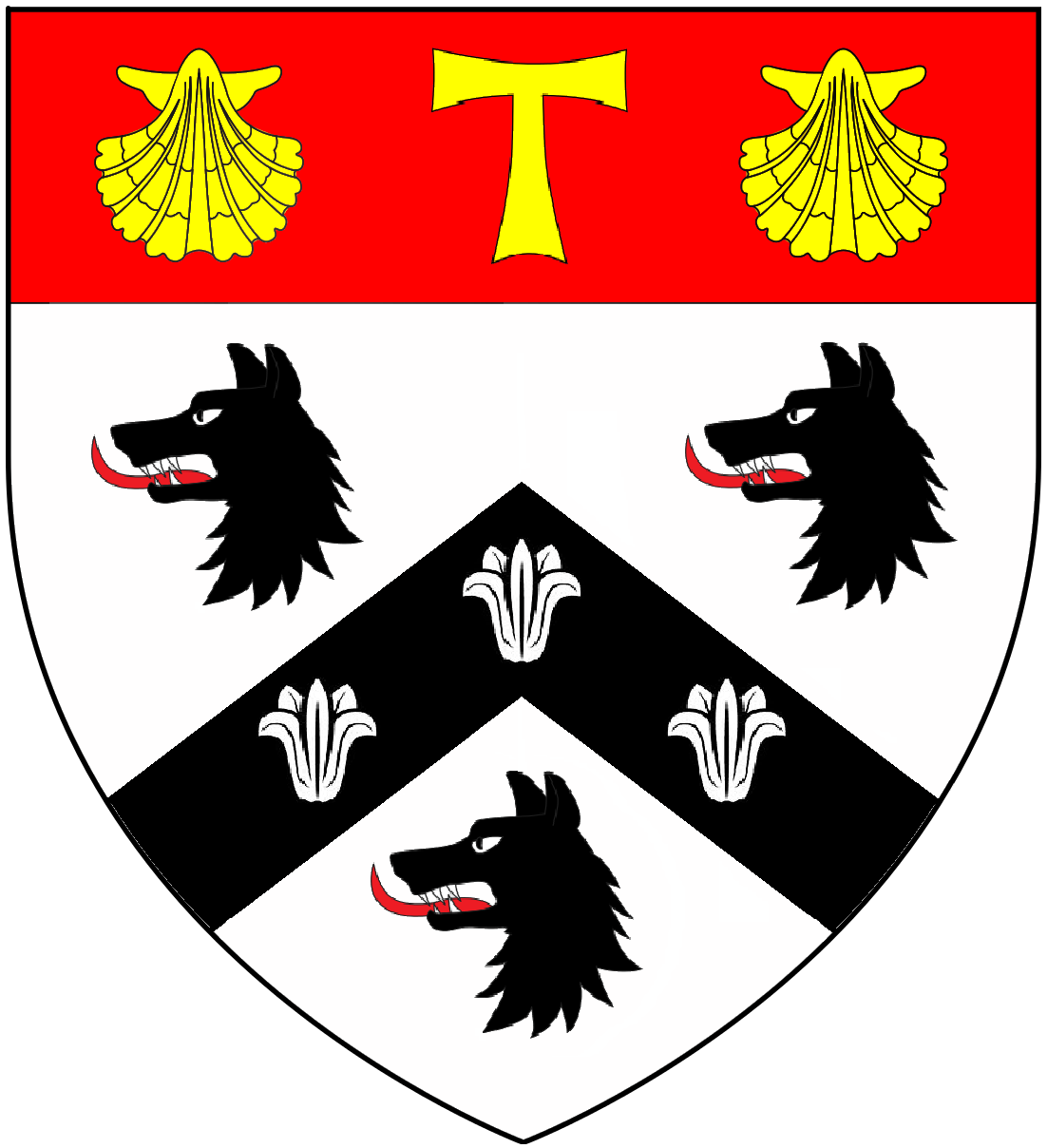 Arms of Roger Lupton (died 1540), Provost of Eton College: Argent, on a chevron between three wolf's heads and necks erased sable three lilies of the field on a chief gules between two escallops a Tau cross or. Arms granted by King Henry VII. The Tau cross was a symbol of Saint Anthony of Egypt and thus probably referred to his mastership of St Anthony's Hospital. The escallops were possibly bells, another symbol of Saint Anthony, of which two were often shown suspended from the cross member of a Tau cross. The wolves were canting references to his surname from the Latin Lupus, "a wolf", and Sable, three lilies argent, is the base part of the arms of Eton College.